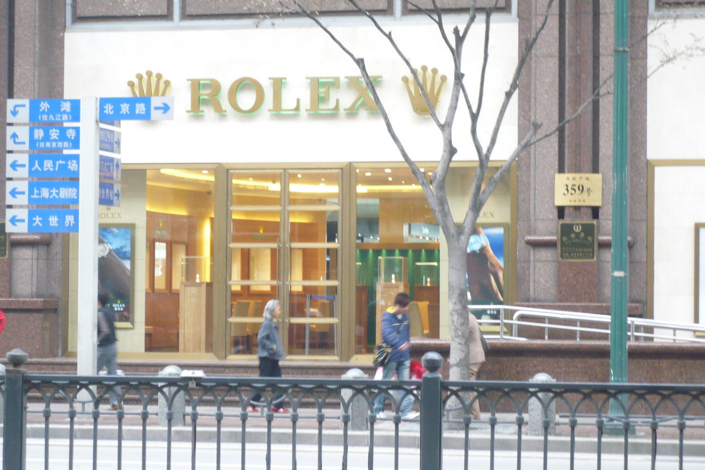 Rolex store in Shanghai